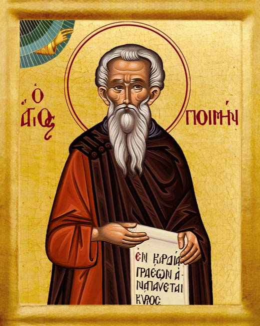 Saint Poimen The Great